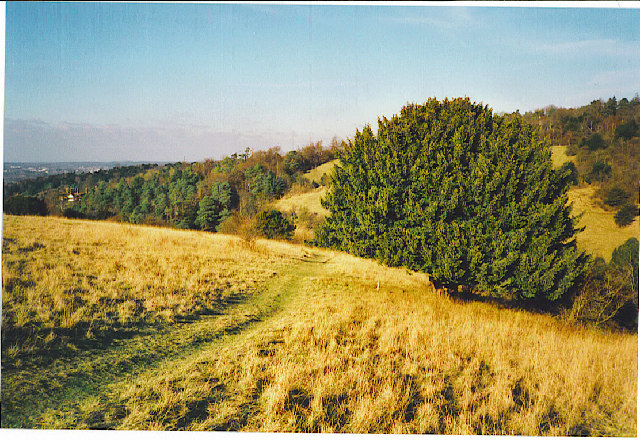 Box Hill, looking down the path from the north. North Downs at Box Hill on a quiet autumn weekday. This is National Trust land and a very popular walk for many. Box Hill is on the eastern side of the Mole Gap, a major routeway N-S through the North Downs from Leatherhead to Dorking.